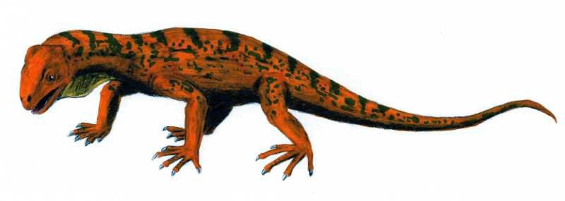 Trilophosaurus, pencil drawing